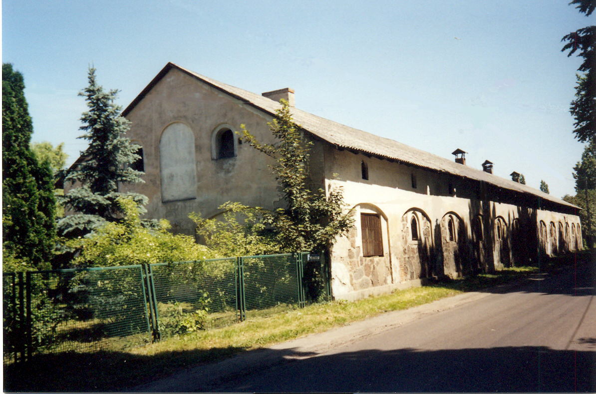 Czerwonka in Sochaczew - cowshed